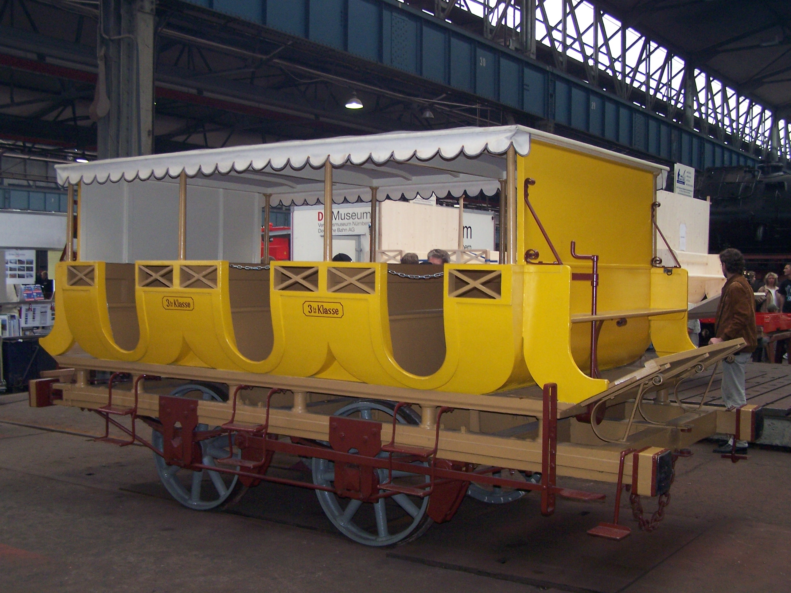 wooden waggon of the first steam locomotive in Germany Adler (reproduction of 1935) in the Dampflokwerk Meiningen, Germany at the Dampfloktage, September 2007